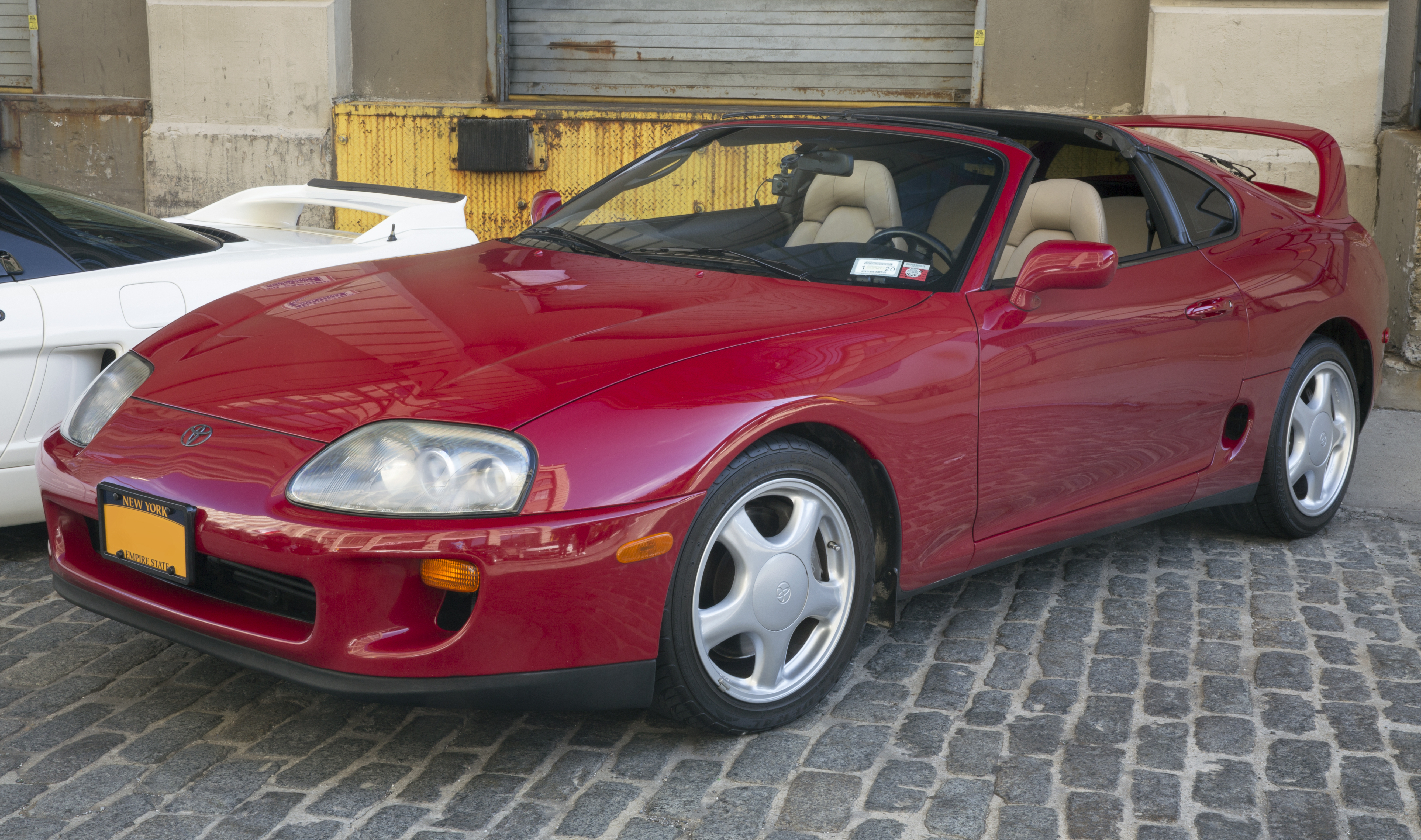 A 1994 Toyota Supra Sport Roof in Red at a car meet in Brooklyn's Industry City.